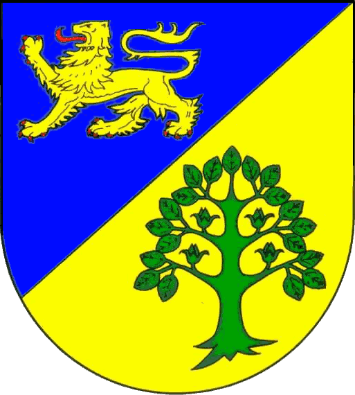 Coat of arms of the municipality Böklund in Schleswig-Holstein, Germany.